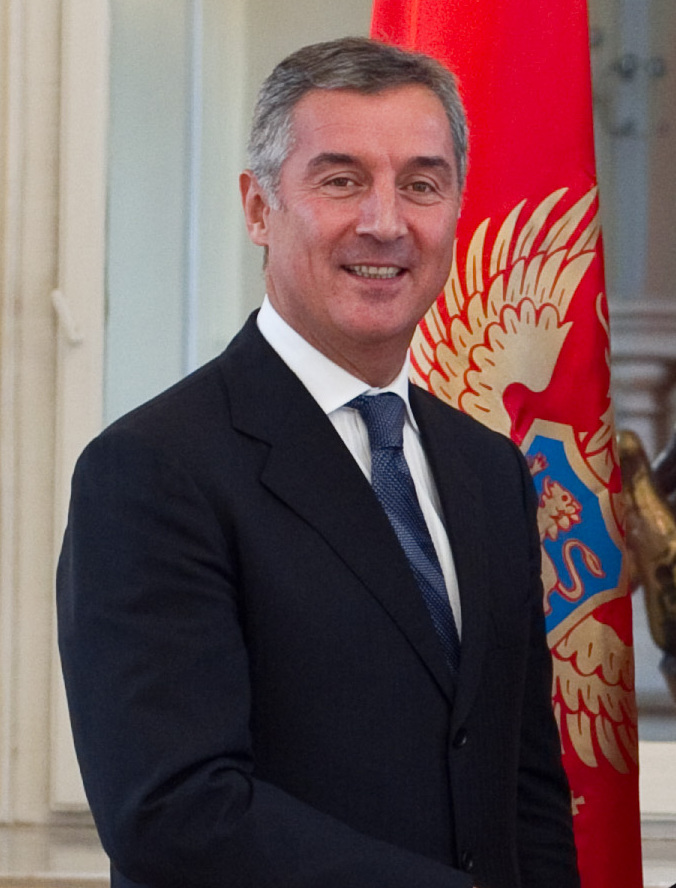 Danilo Türk and Milo Đukanović in 2010